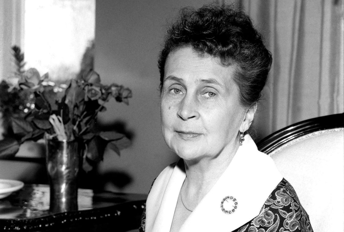 Photograph of the First Lady of Finland Sylvi Kekkonen.